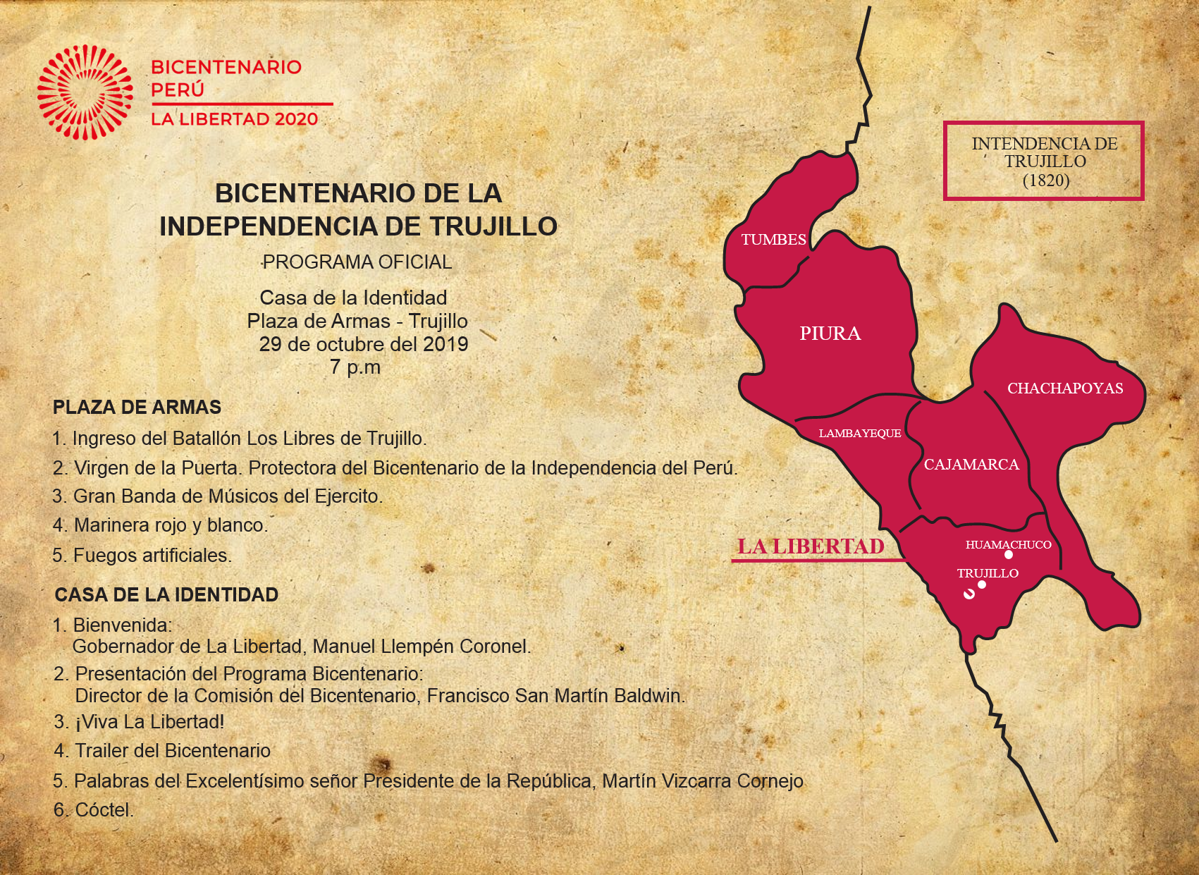 Reproduction of the Official Program for the Presentation of the Bicentennial Agenda La Libertad 2020, in the city of Trujillo, Peru.